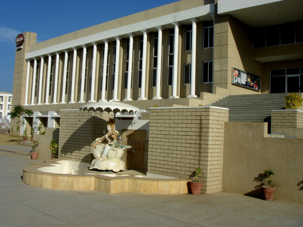 This is the front view of Medicaps Institute Indore's Library